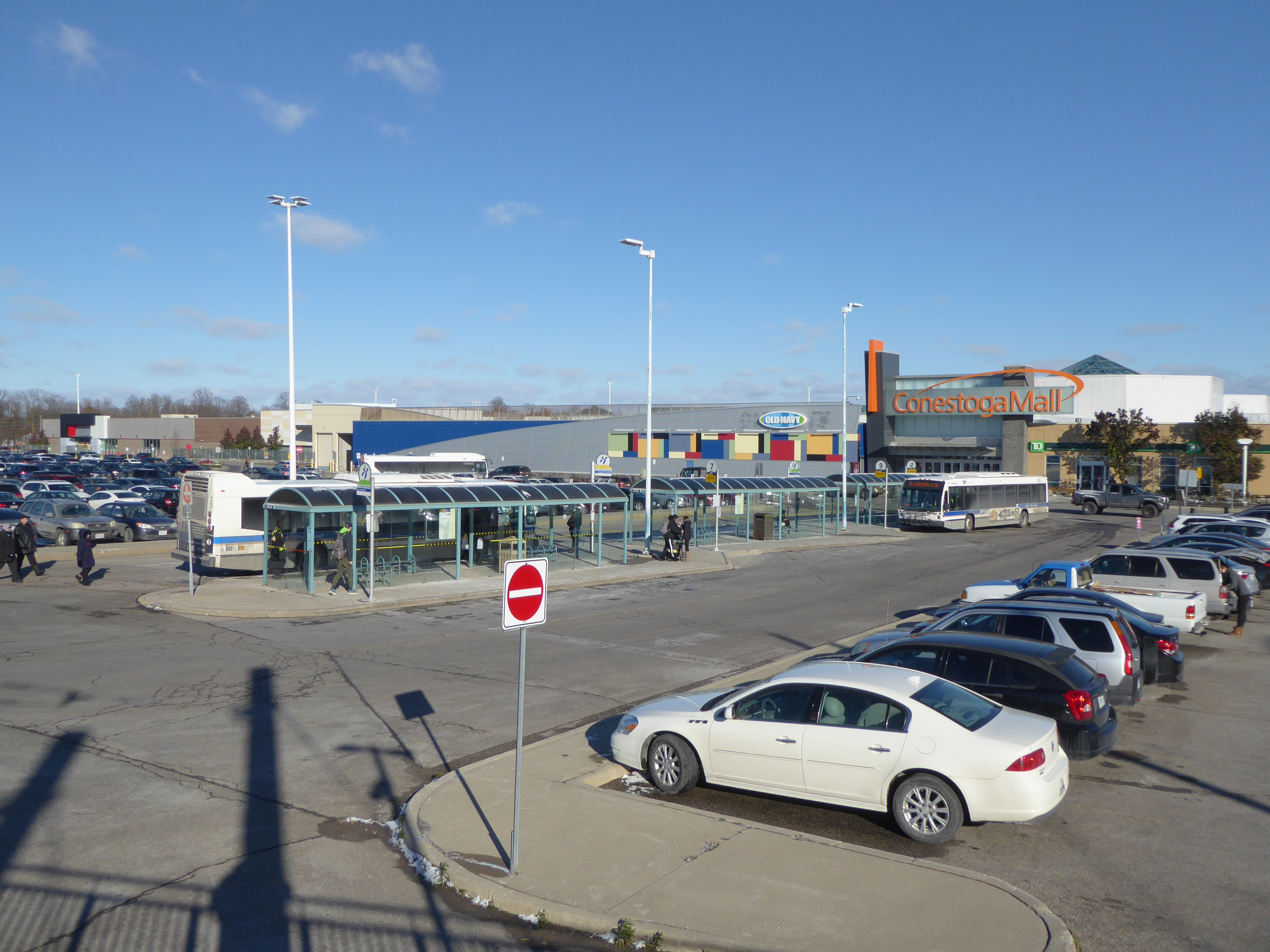 Conestoga Mall bus terminal of Grand River Transit, photographed November 2017